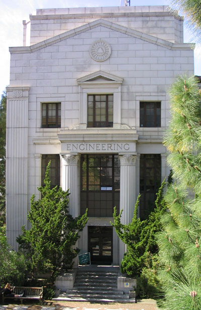 McLaughlin Hall, College of Engineering, UC Berkeley